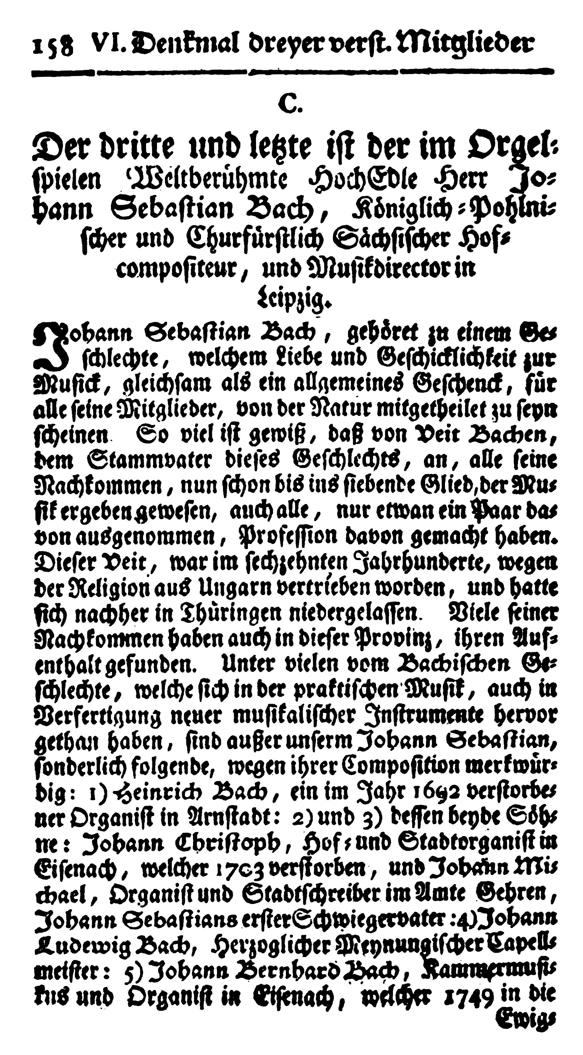 Nekrolog of Johann Sebastian Bach, Page 158 of Mizler's Musikalische Bibliothek, Vol IV, high resolution